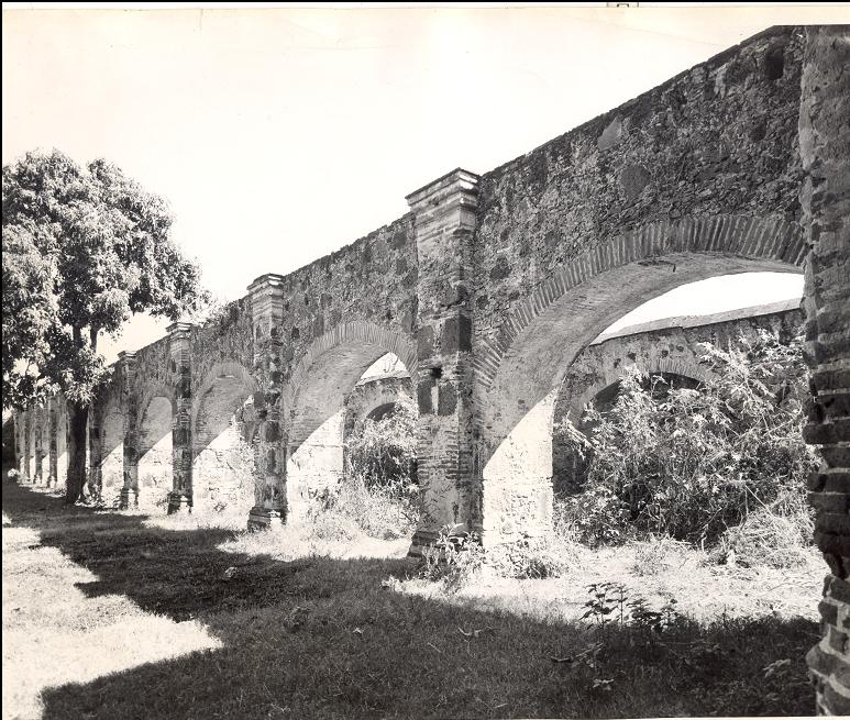 Foto antigua del acueducto del Hacienda Cocoyoc